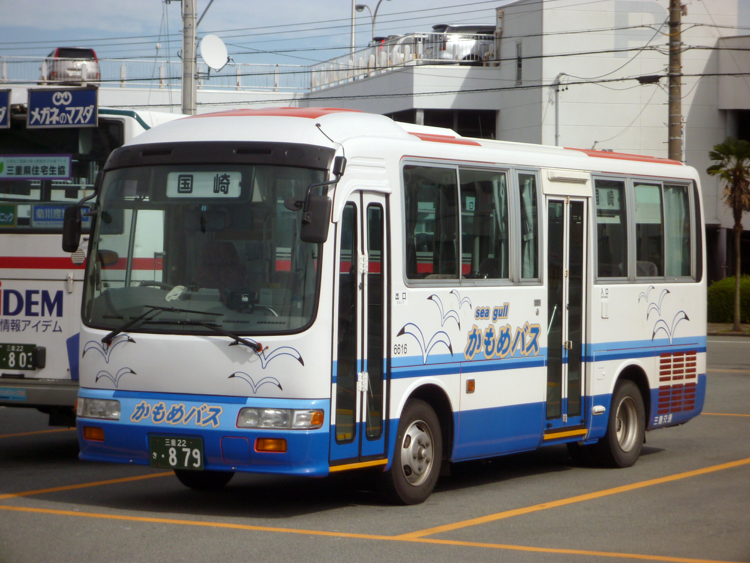 The "Kamome(sea gull) Bus" in Toba Bus Center.